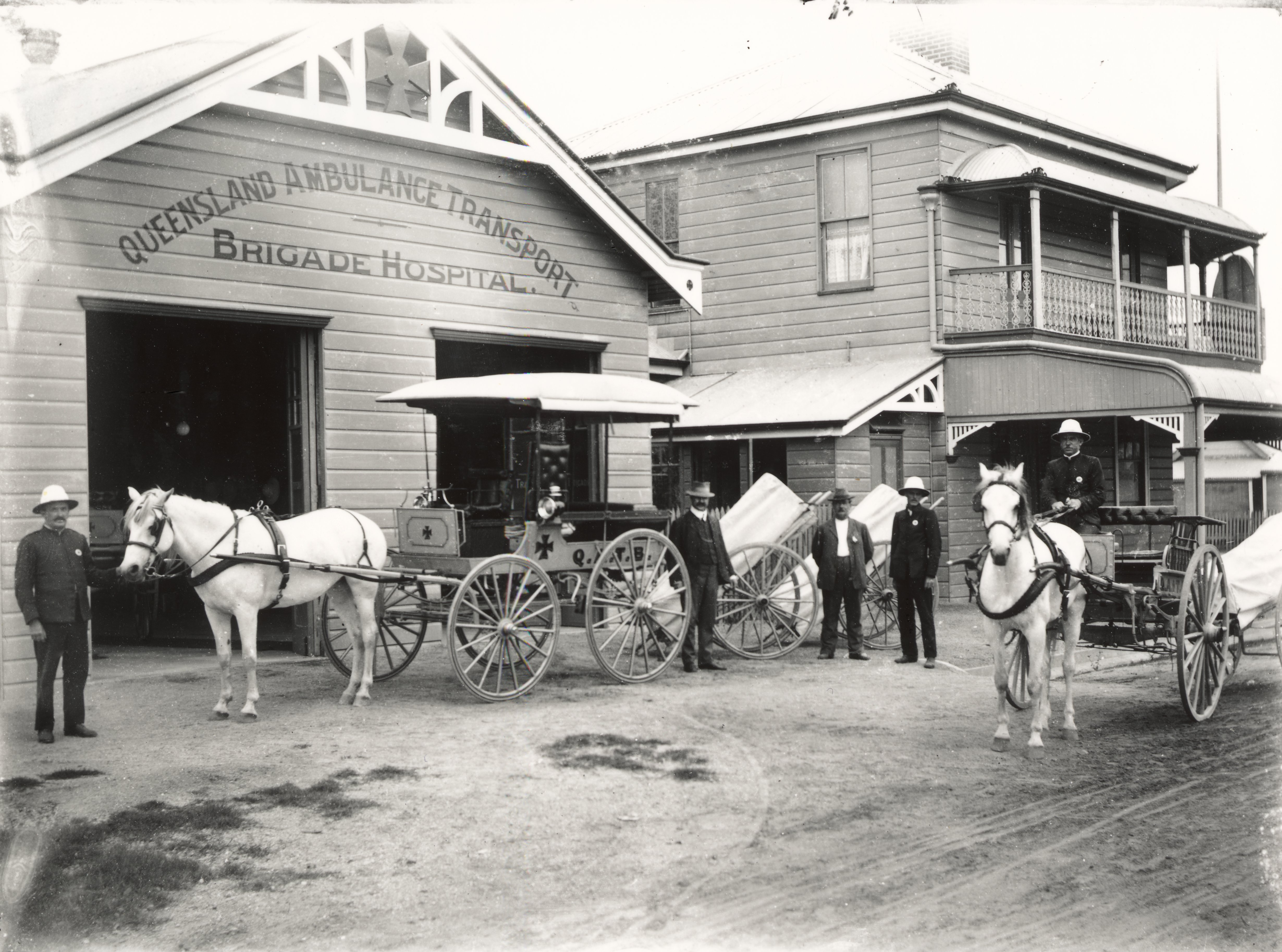 Ipswich Ambulance Depot A E Roberts Carriage Works built vehicles and equipment for the Ipswich Ambulance Transport Brigade. A E Roberts Snr. is in the centre of the photo, taken around 1900. The depot was located on the corner of Downs and Flint Streets (Ipswich, Queensland) until recently. Queensland Museum holds over 1000 of Bert Roberts' plate glass negatives and prints from the era.